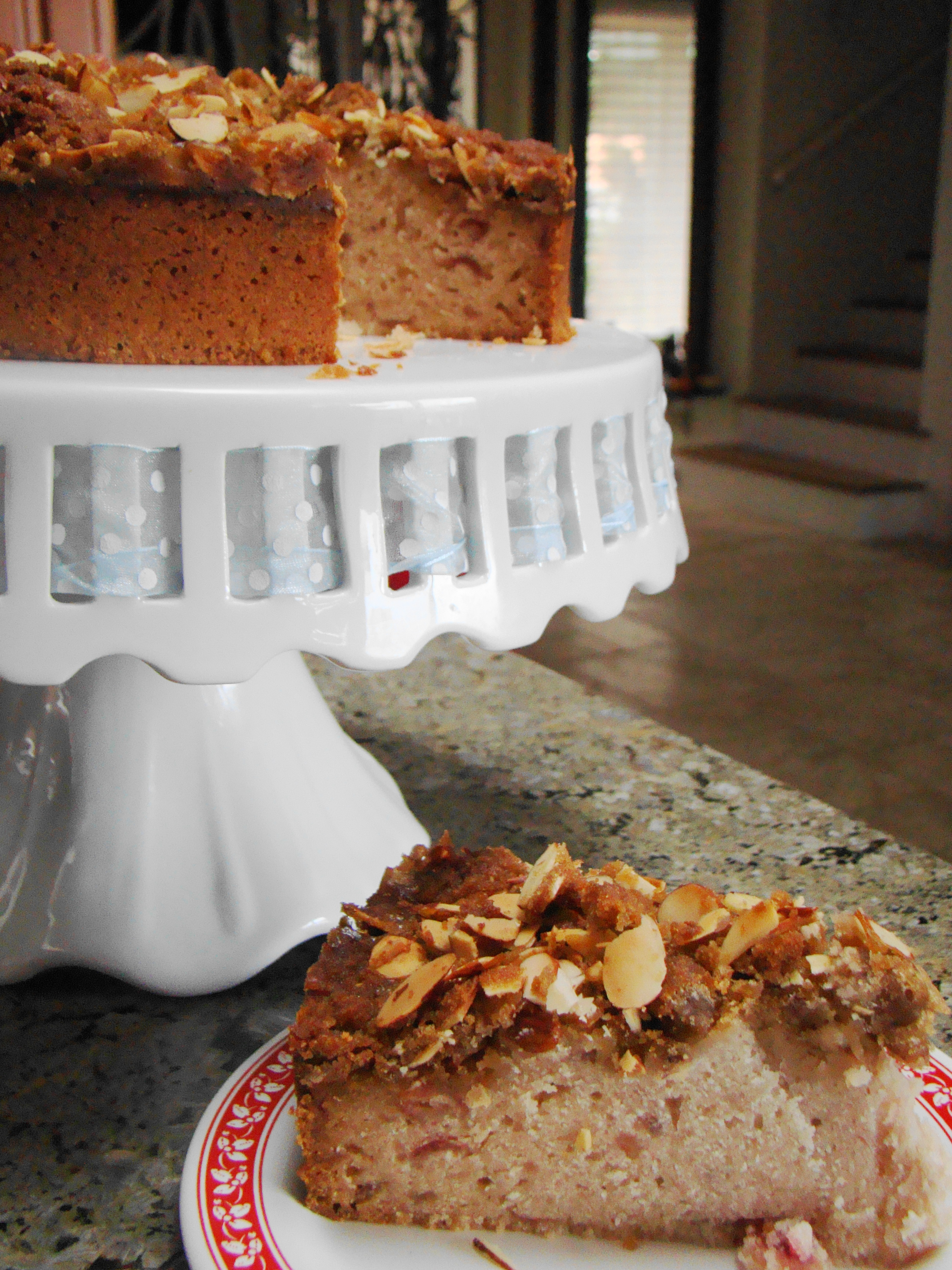 Vegan Cranberry Coffee Cake